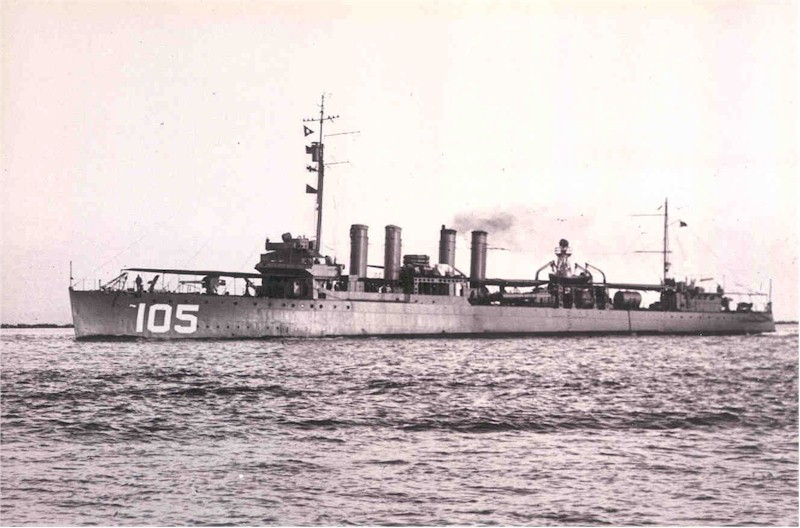 USS Mugford (DD-105), circa 1920. The ship's after 4"/50 gun has been remounted atop the after deckhouse.